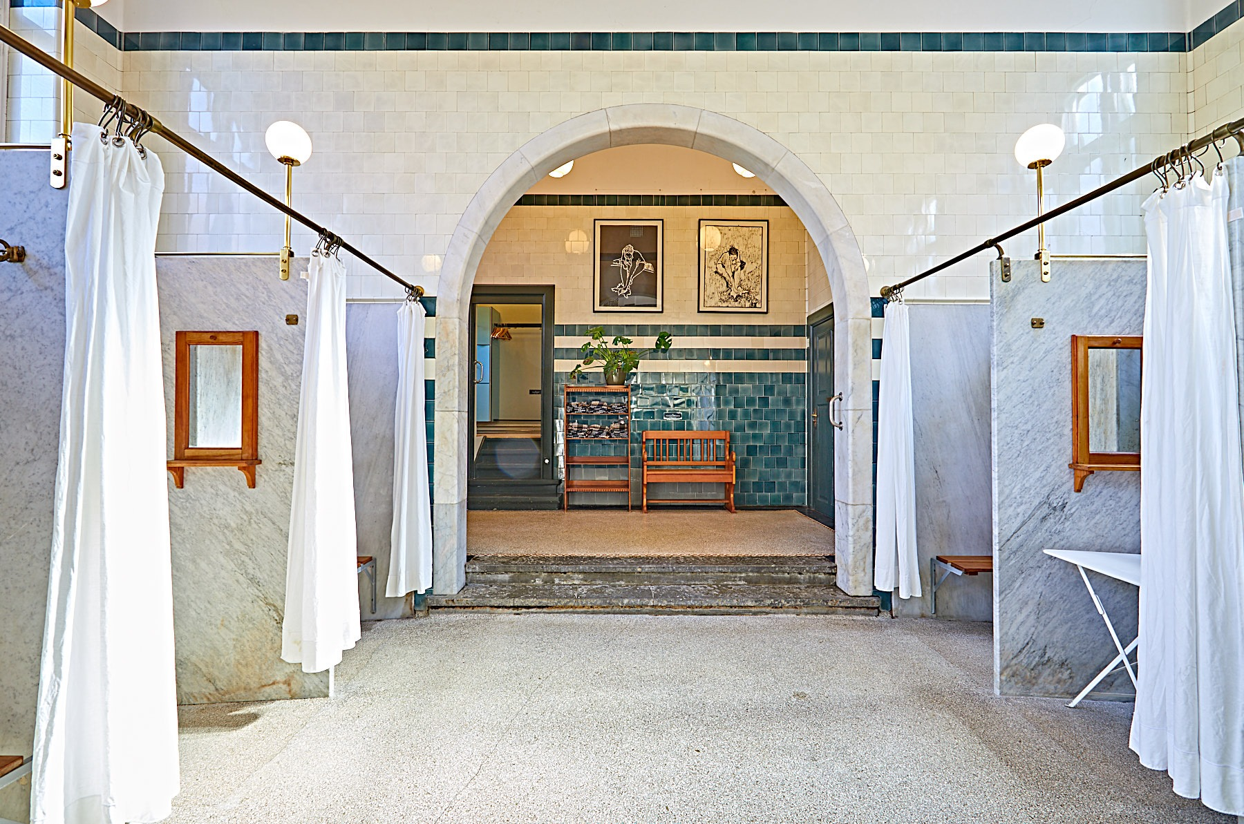 The picture was taken inside the bath Sofiebadet in Denmark.